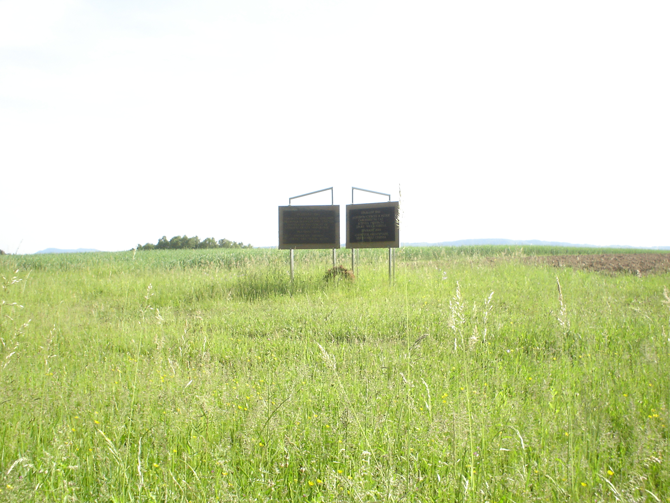 Memorial plate on old WWII airfield in Pranjani